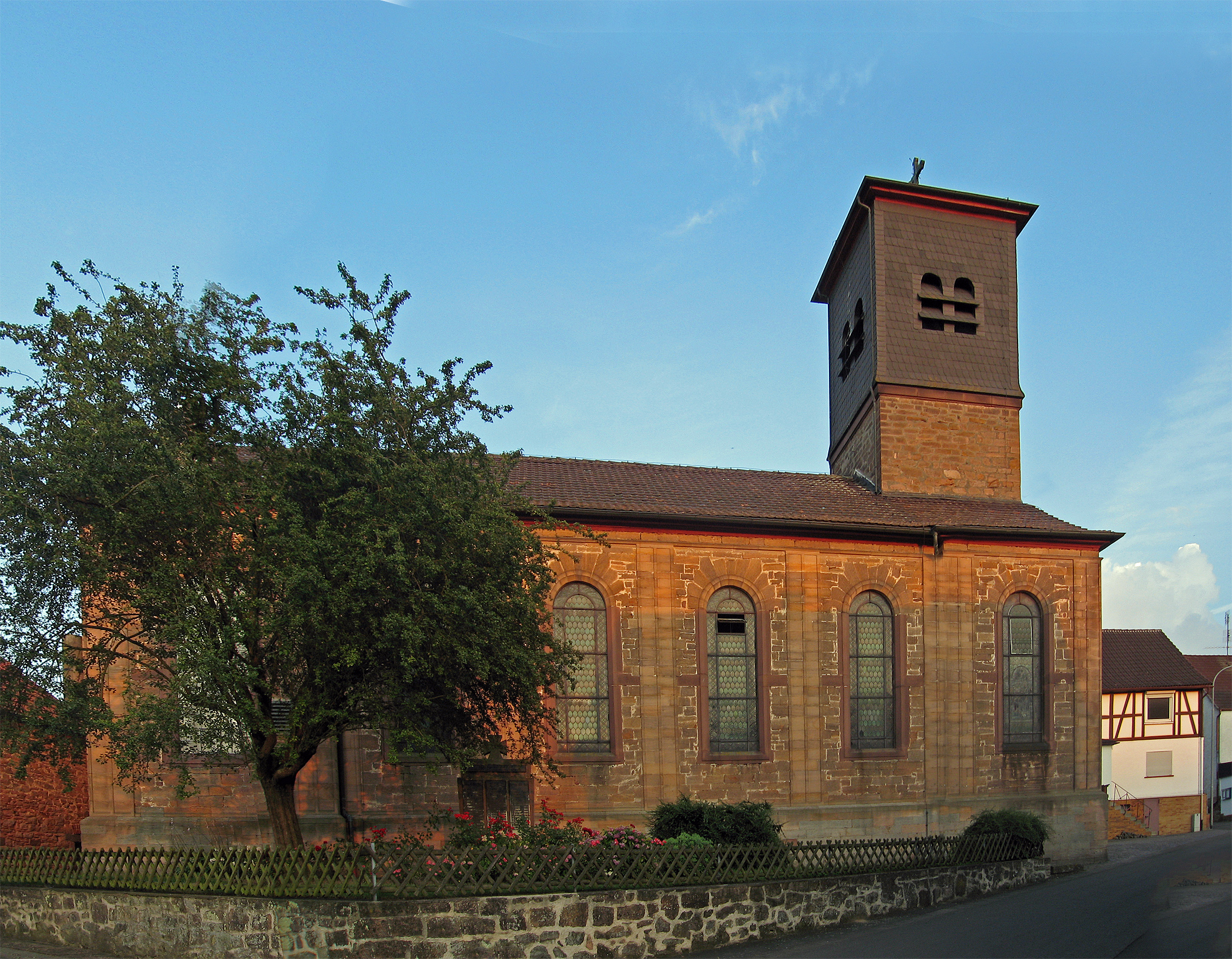 The church in Erfurtshausen a village in the area of Amöneburg